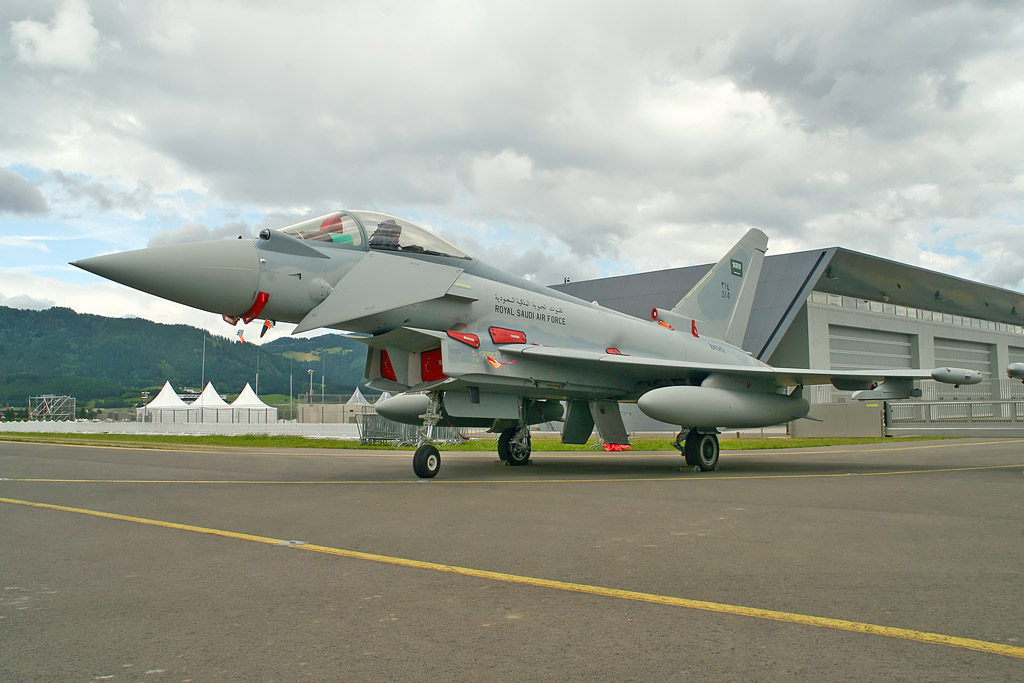 Eurofighter Typhoon of the Royal Saudi Air Force at Zeltweg air show